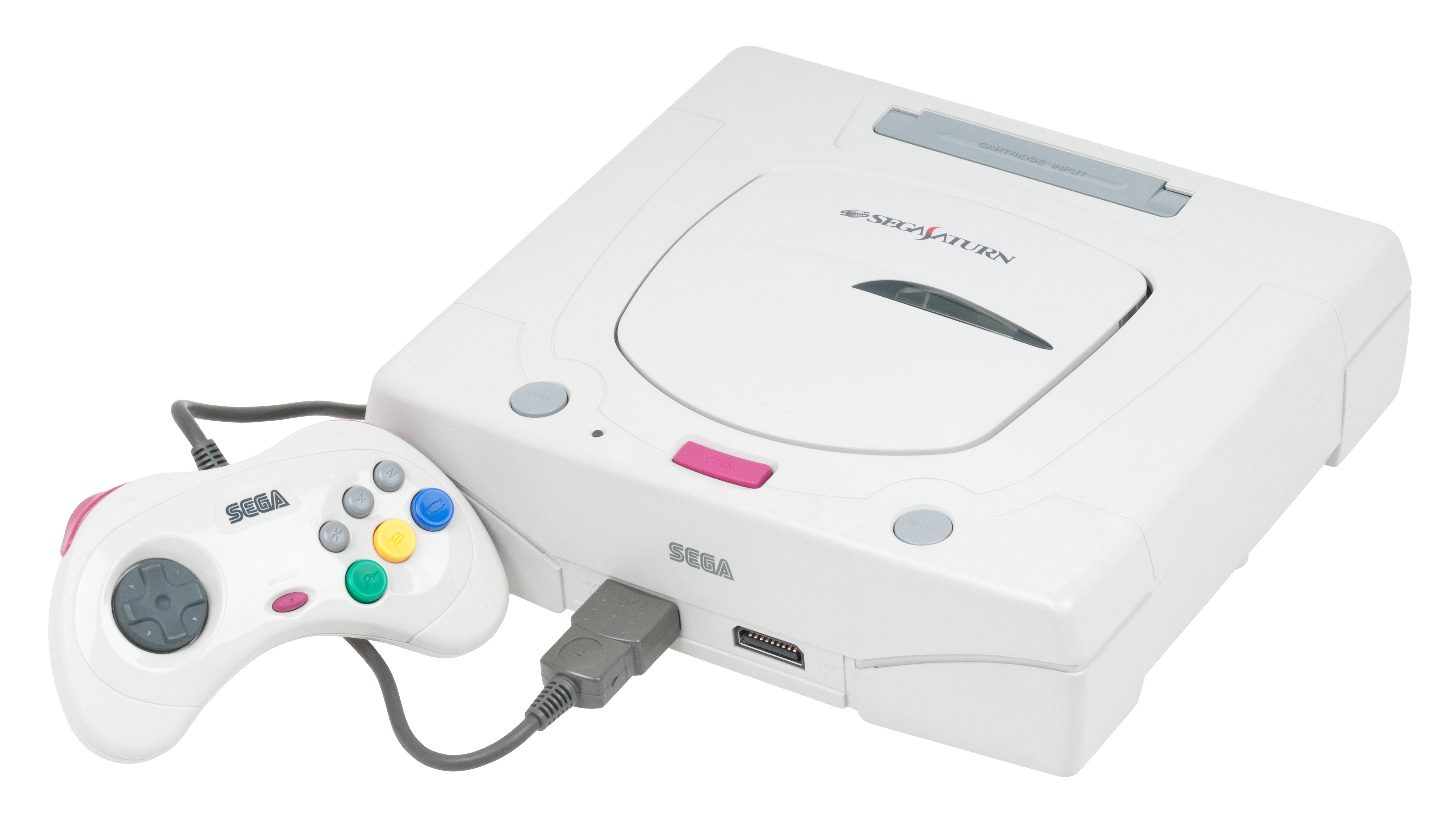 A Japanese Sega Saturn. This is the second version of the hardware that is white and has round power and reset buttons.